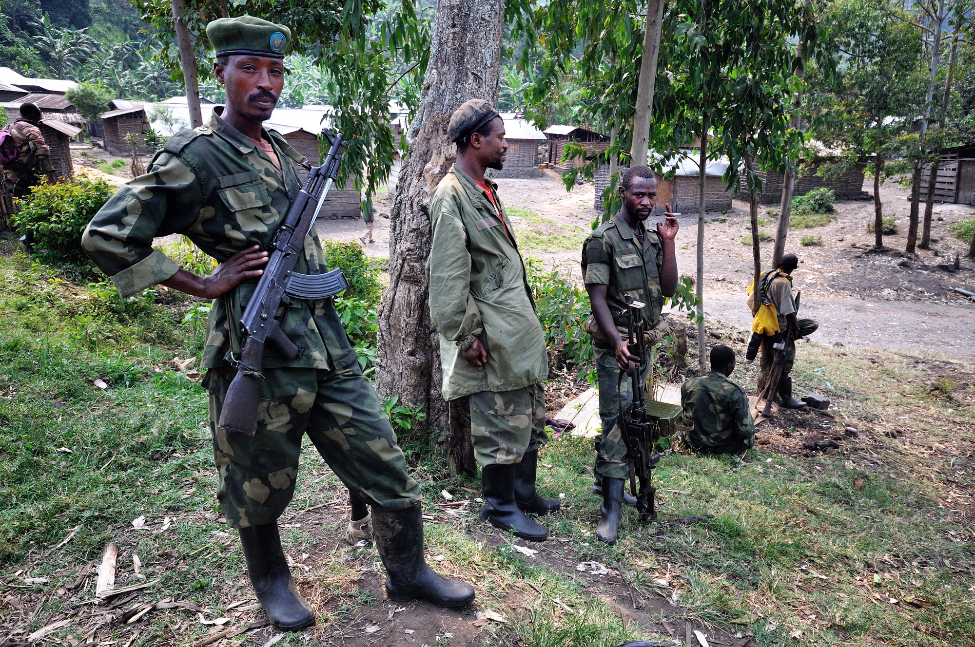 M23 fighters